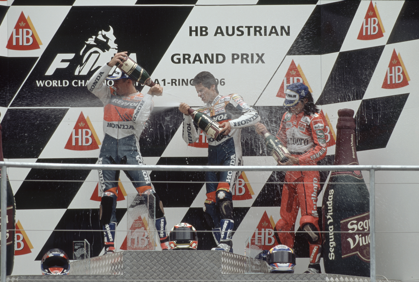 Mick Doohan, Àlex Crivillé and Norifumi Abe, spraying the champagne and celebrating after finishing in second, first and third place at the 1996 Austrian Grand Prix.